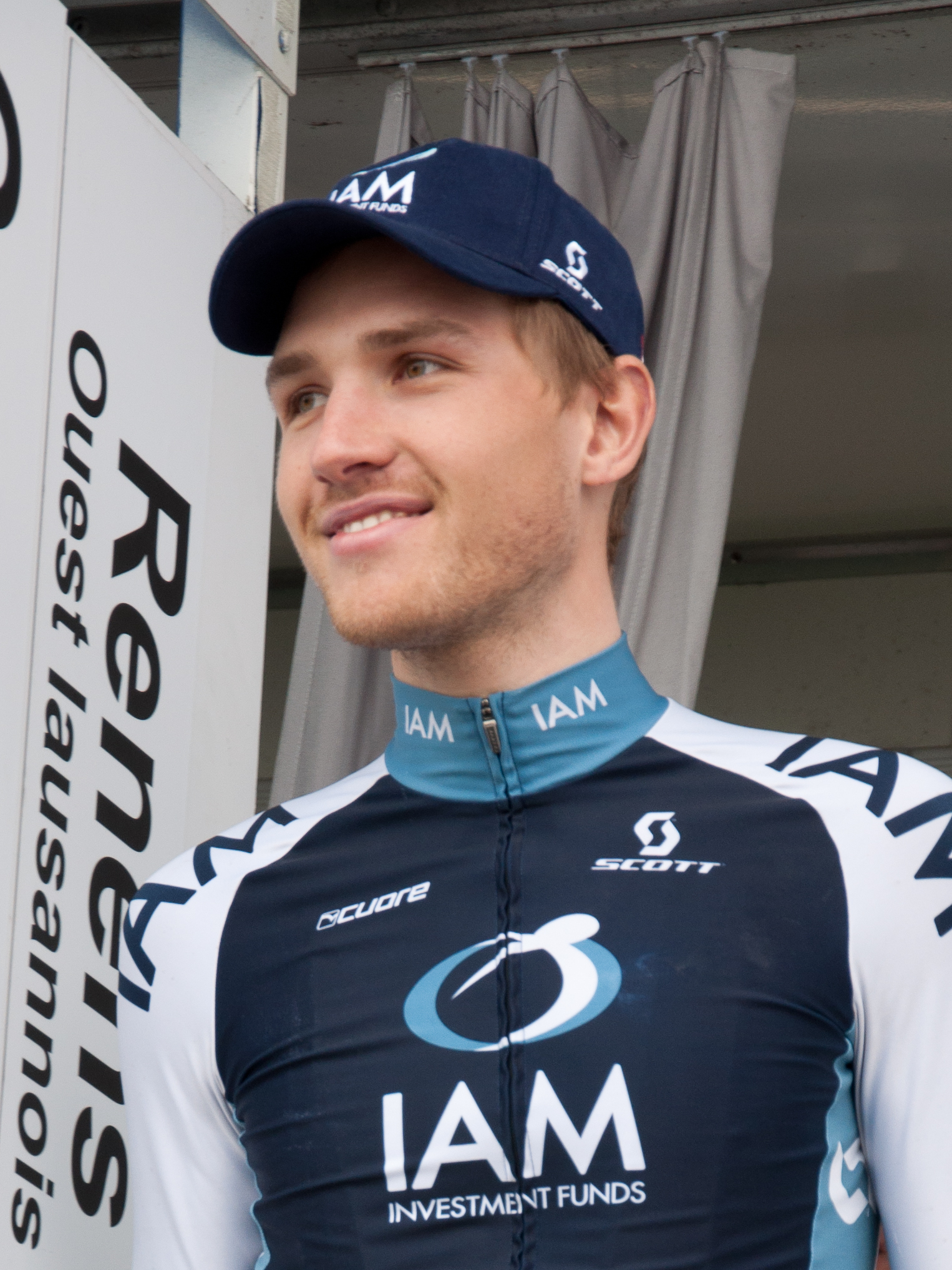 Podium ceremony of Tour de Romandie 2013's stage 5, in Geneva, Switzerland. Matthias Brändle, the winner of the final green jersey for the most points gained in intermediate sprints, entering on the stage.